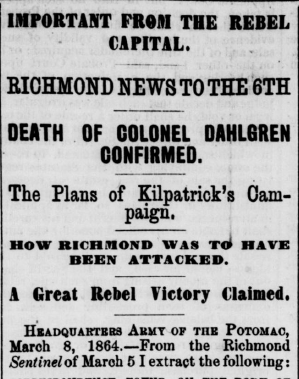 This is the beginning of a newspaper article (Weekly Pioneer and Democrat) about an unsuccessful and controversial raid by General H. Judson Kilpatrick and Colonel Ulric Dalhgren on Richmond during the American Civil War. The article is from the Richmond point of view.